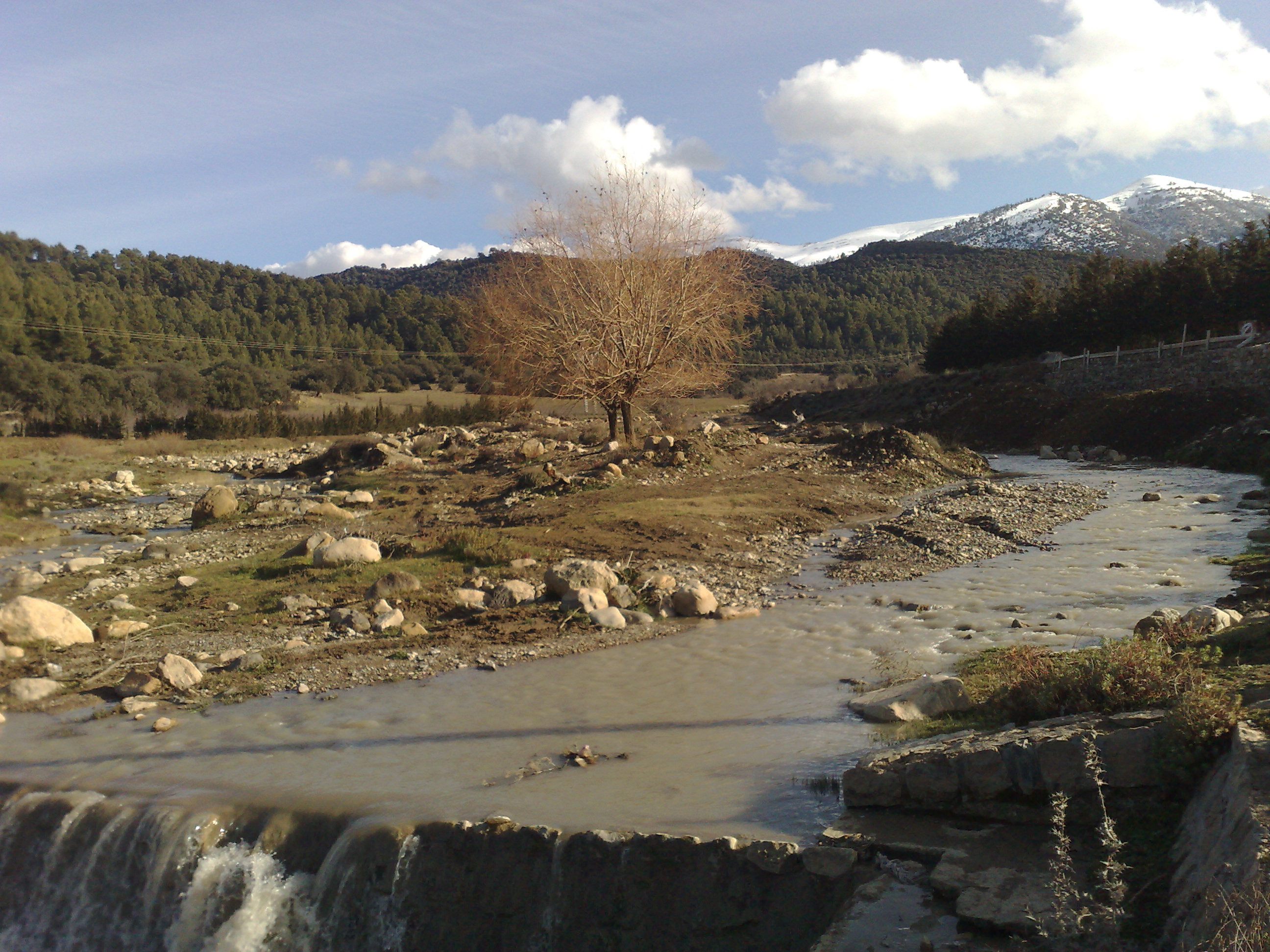 Aures, chalia, algeria, batna, berber, chaoui, mountain, landscape, highland, fall east algeria algerie